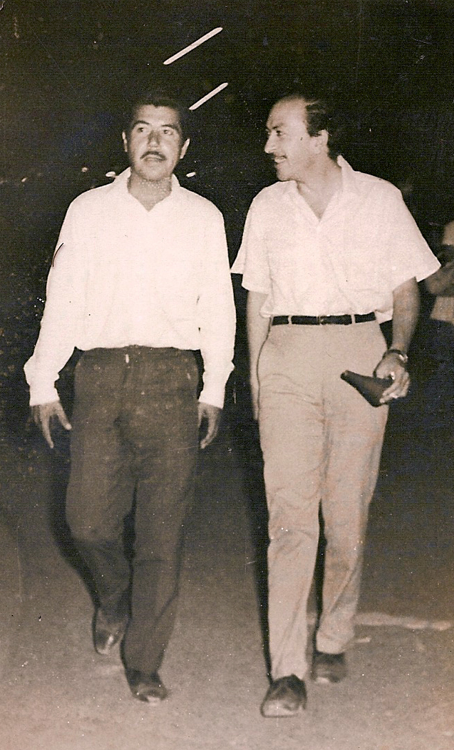 Florentino Medina (izquierda).1957